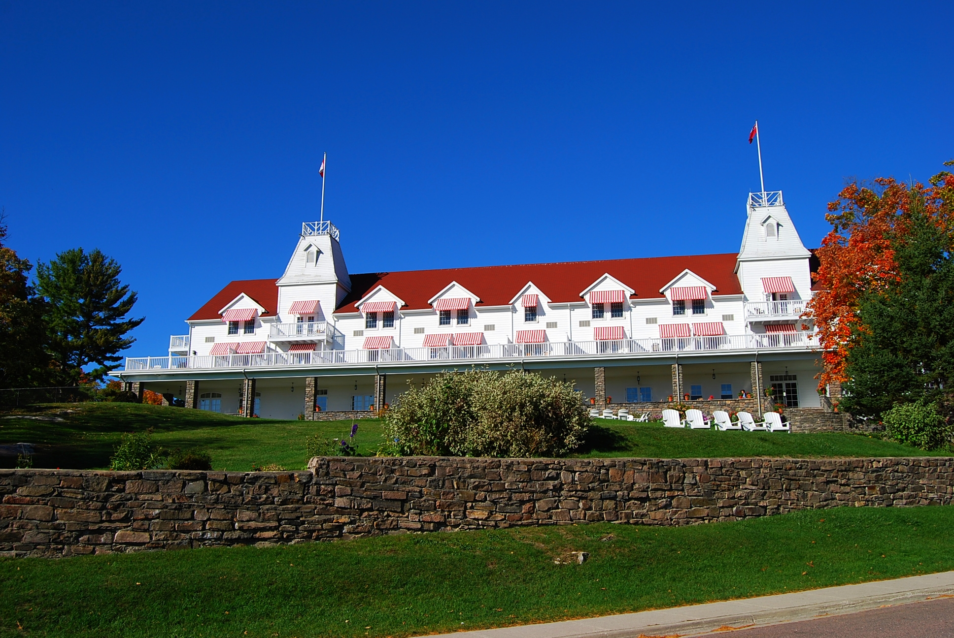 Windermere House located on lake Rousseau, Ontario, Canada